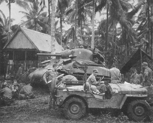 M4A1 Sherman being supplied with 75mm shells after disembarking in Talasea.